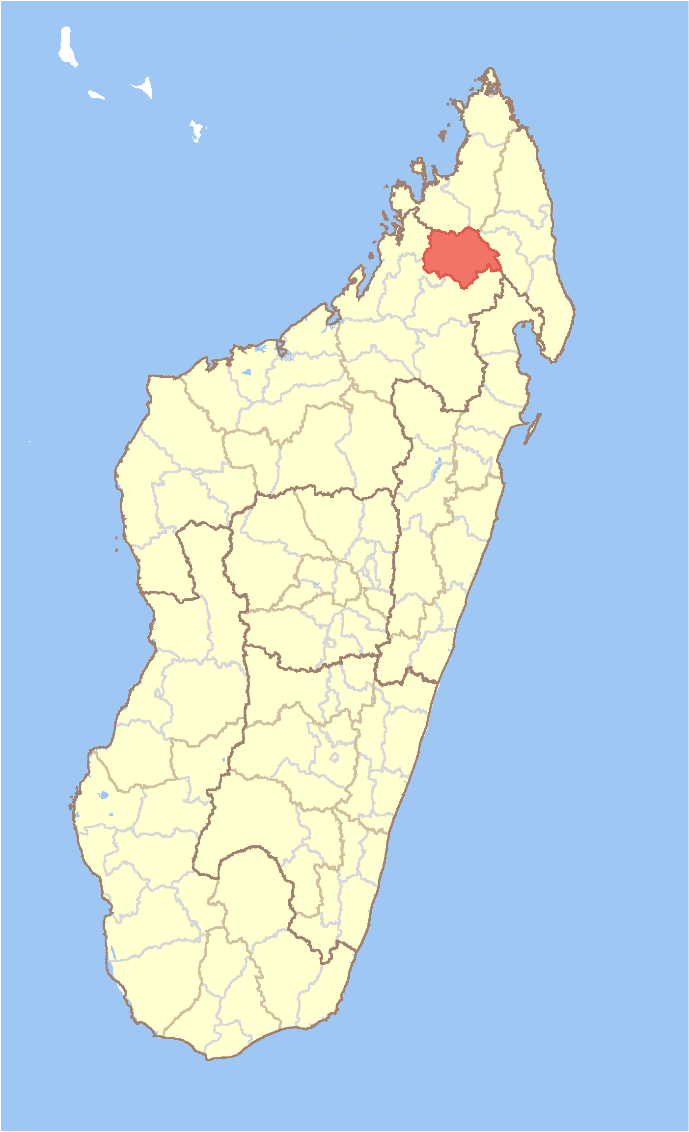 Map of Madagascar with Bealanana District Highlighted